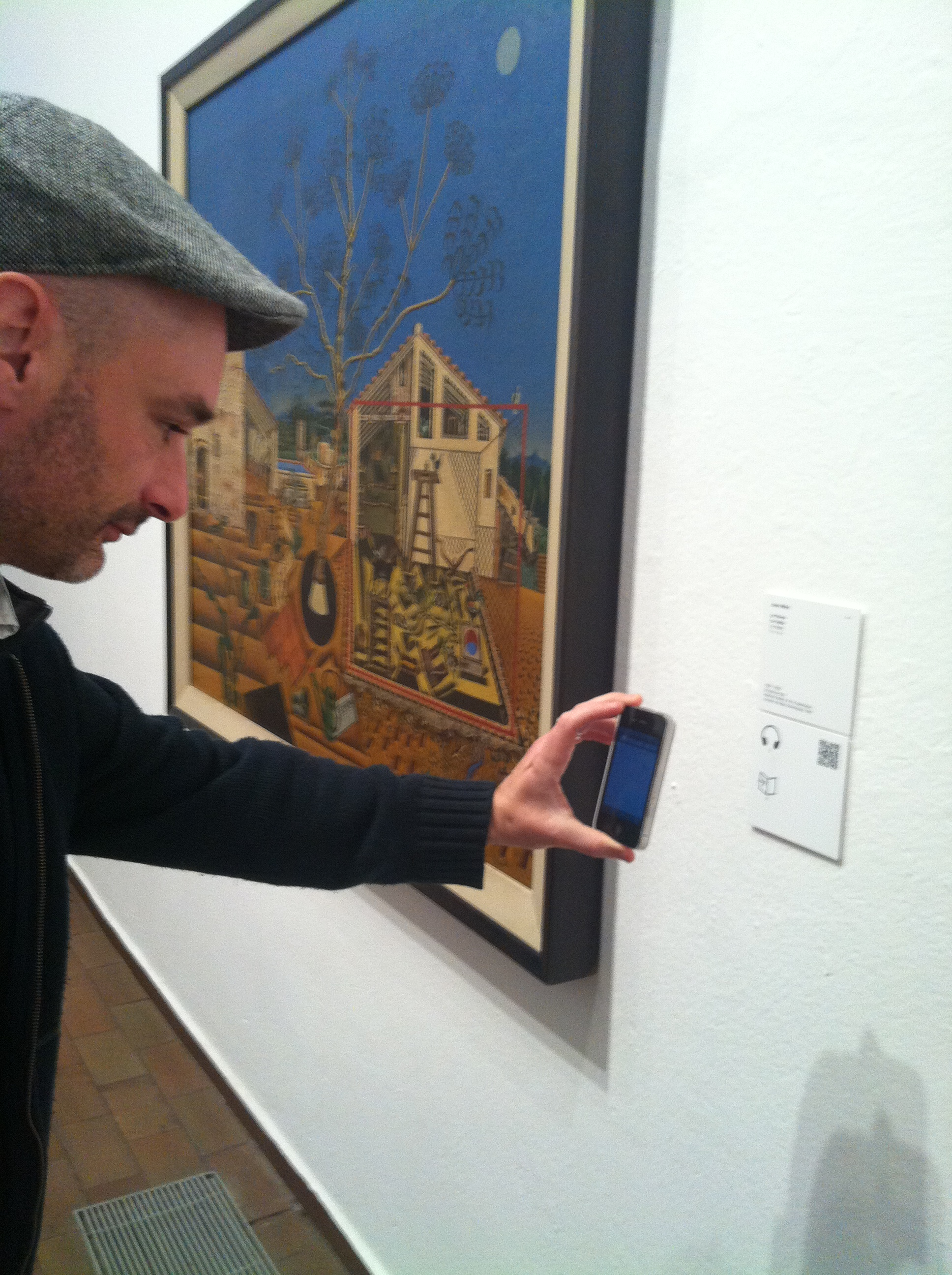 Samuel Bausson using QRpedia at Fundació Joan Miró